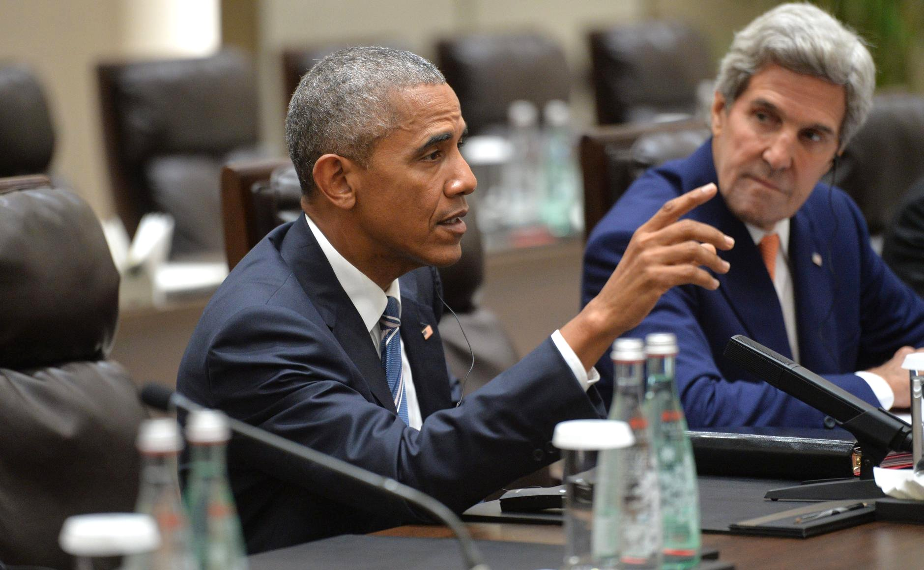 U.S. President Barack Obama during a meeting with Russian President Vladimir Putin